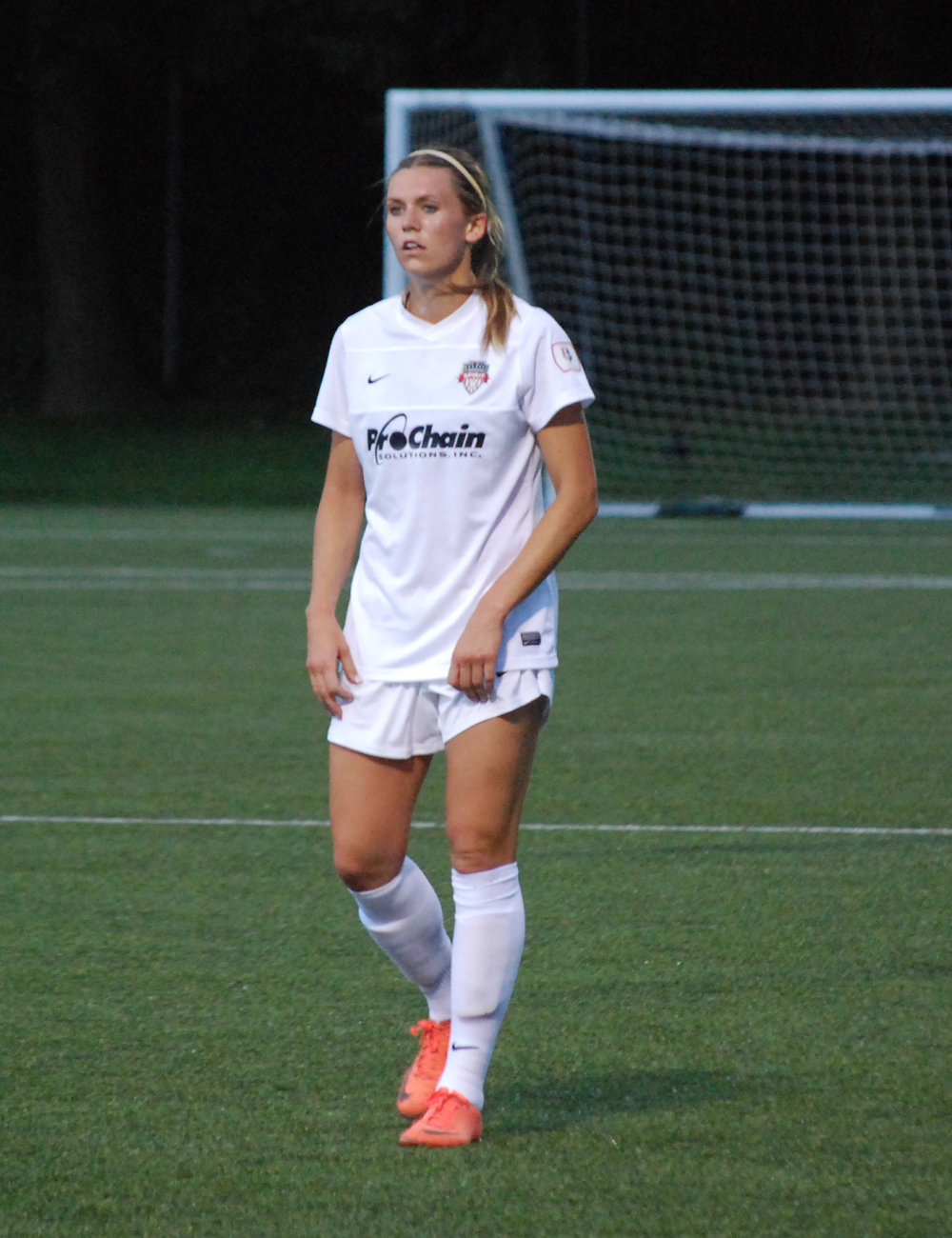 Washington Spirit forward Stephanie Ochs during a match against Seattle Reign FC on May 16, 2013 at Starfire Stadium in Tukwila, Washington.